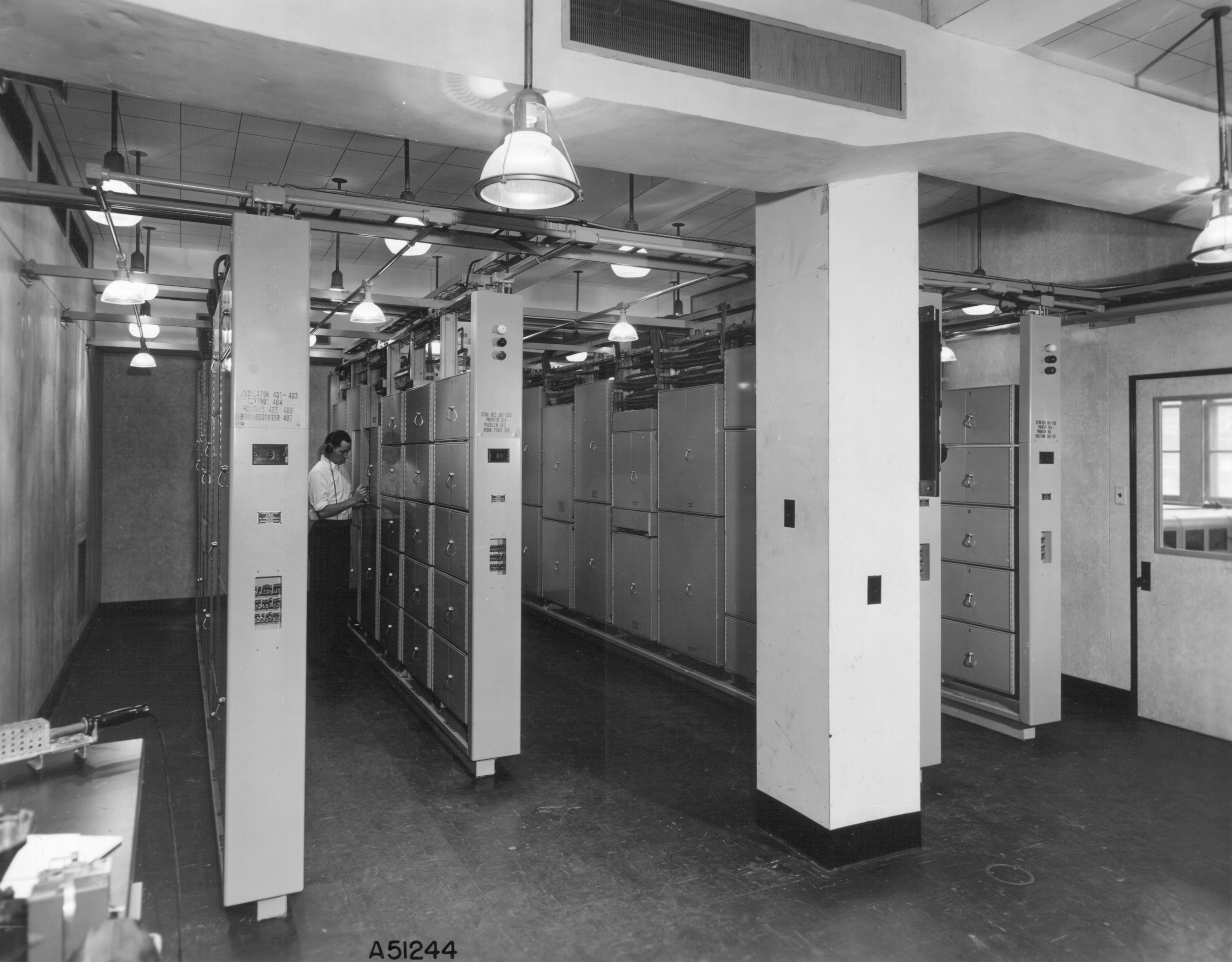 Relay equipment room of the Model V Computer installed at Ballistics Research Laboratories, Aberdeen, Md. "U.S. Army Photo" A51244, with caption "Bell Relay Computer, showing racks in which the computing, storing and controlling relays are mounted.", from the archives of the ARL Technical Library. An old soldering iron is visible on the desk in the lower left. Building 328, room 27, near the back. Background: ?